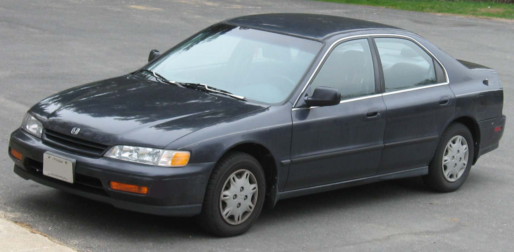 1994-1995 Honda Accord photographed in USA.